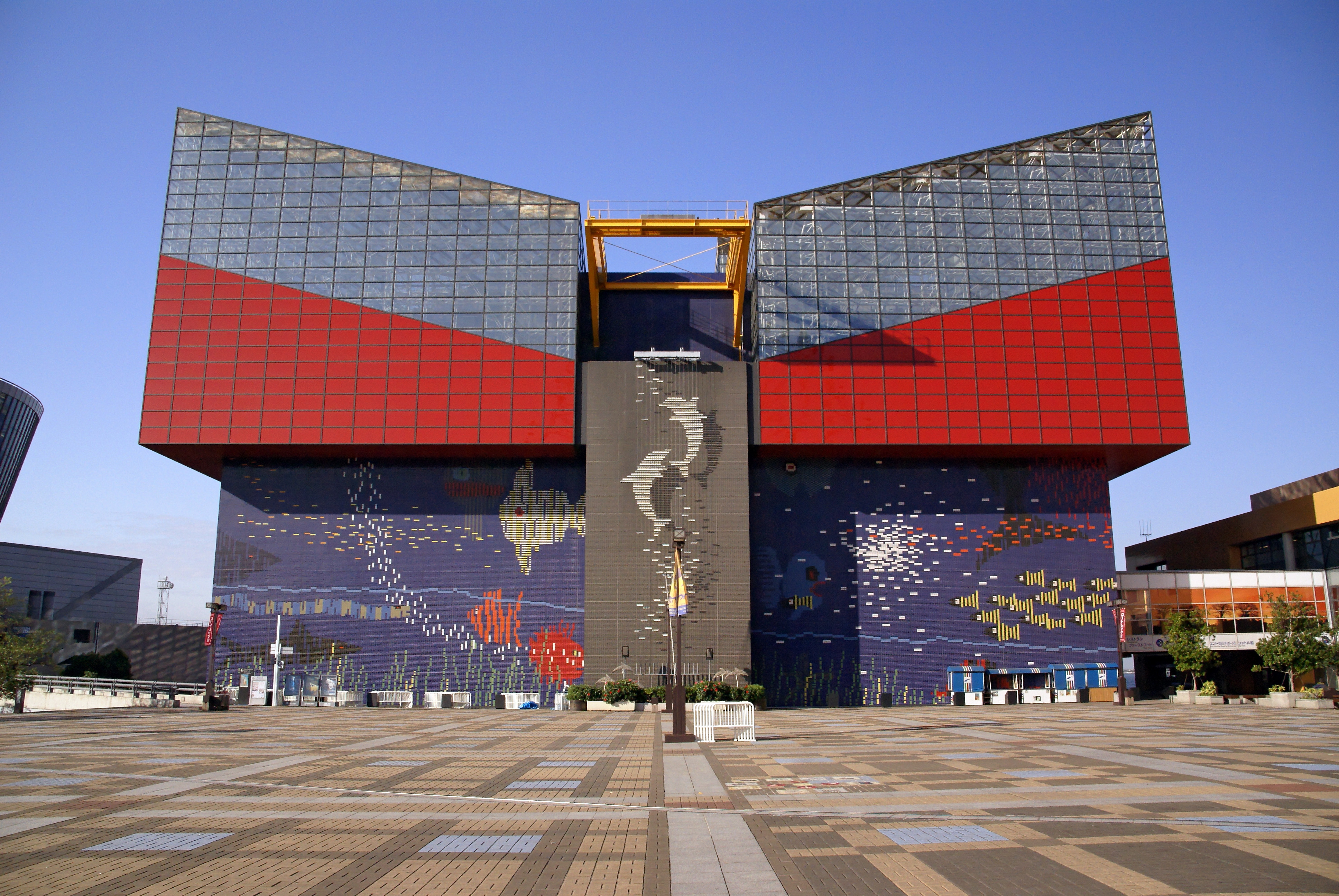 Osaka Aquarium Kaiyukan (Ring of Fire Aquarium) in Osaka, Osaka Prefecture, Japan